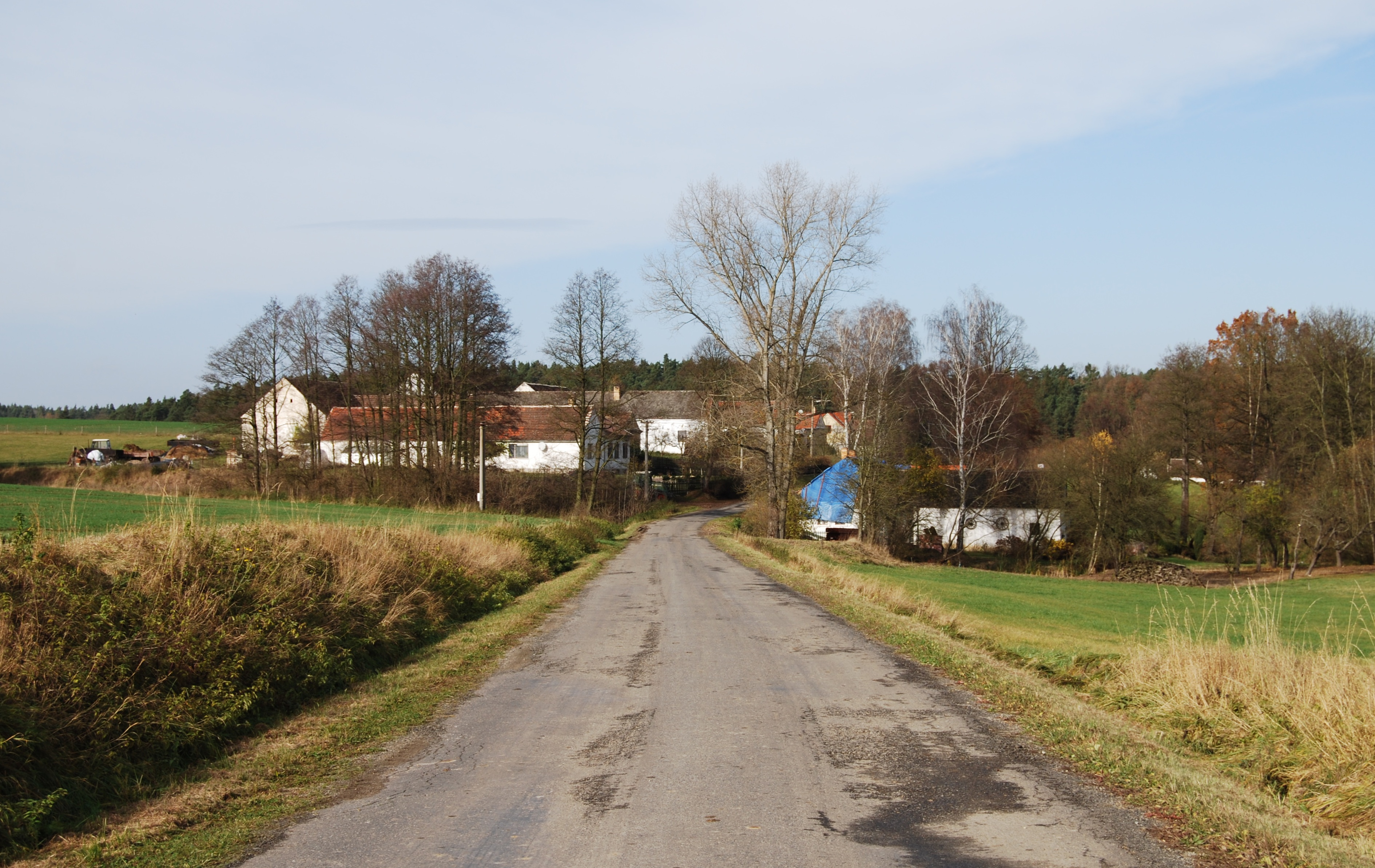 Čenkov u Bechyně village in České Budějovice District, Czech Republic.